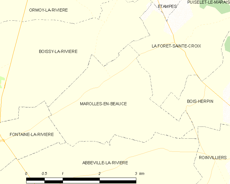 Map of French municipality Marolles-en-Beauce